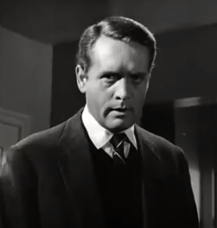 Patrick McGoohan in the trailer for Life for Ruth (1962)